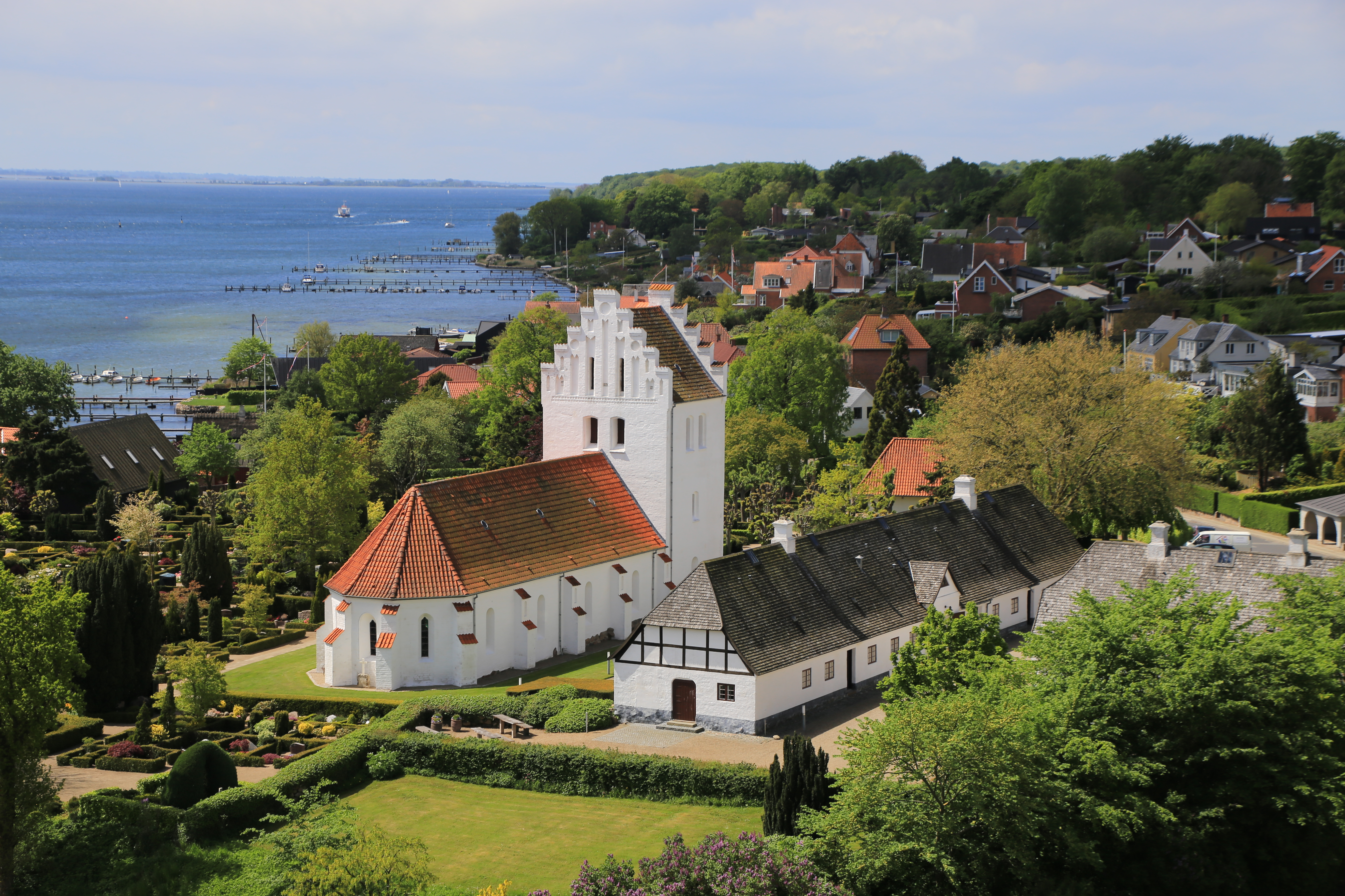 Sankt Jørgens church in Svendborg on Funen in Denmark, seen from the Svendborgsund bridge.